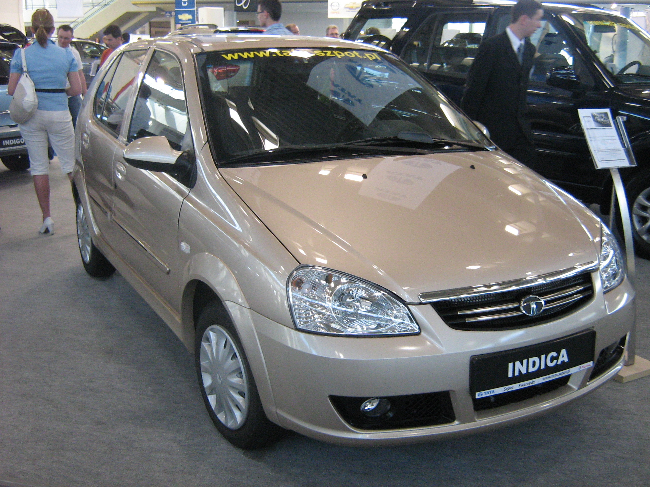 Tata Indica Facelift - PSM 2009 in Poznan.